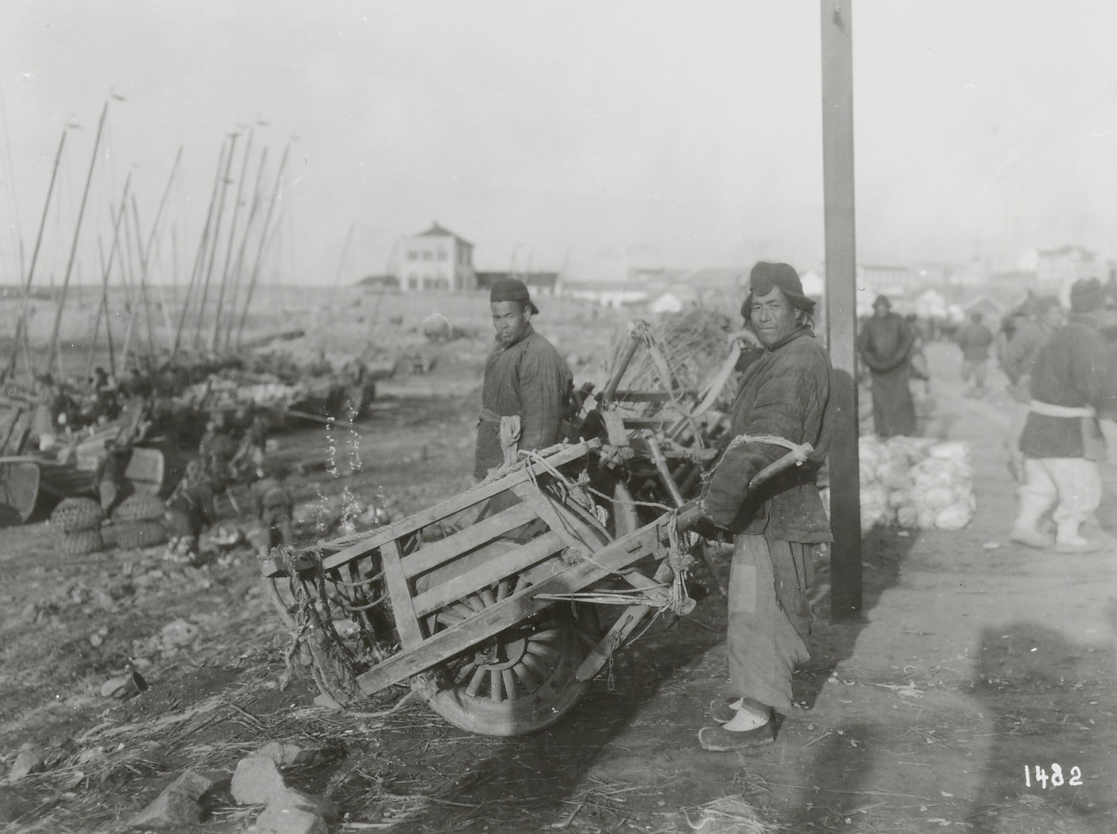 Chinese natives with handcart, at Smaller Harbour of Tsingtau